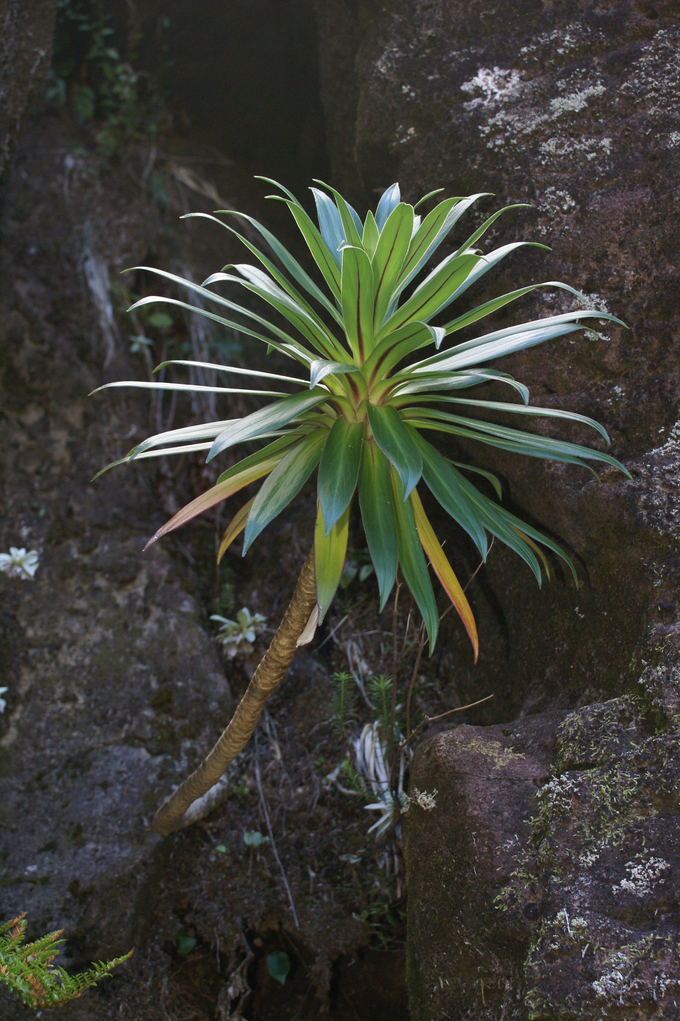 Heterochaenia rivalsii (vegetative stage) growing in a crack of the cliffs of Plateau des Basaltes on Réunion island